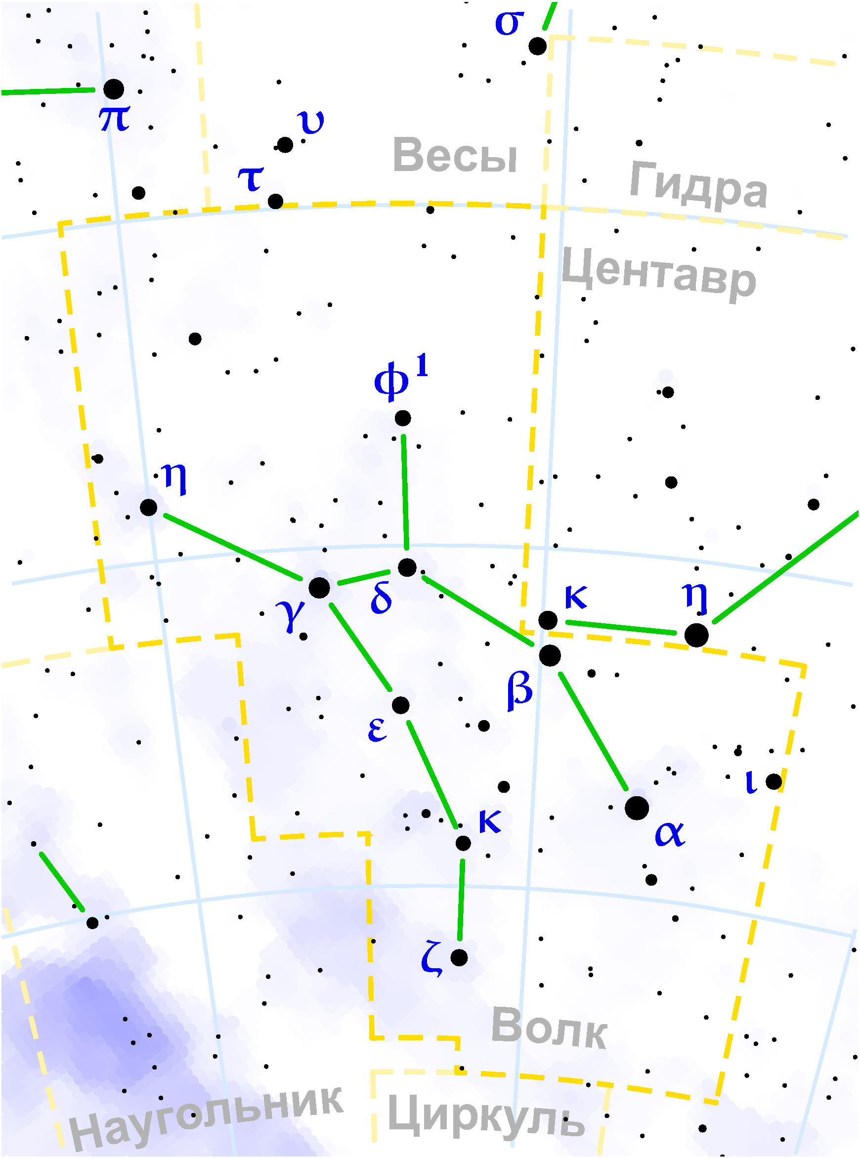 Lupus constellation map in Russian